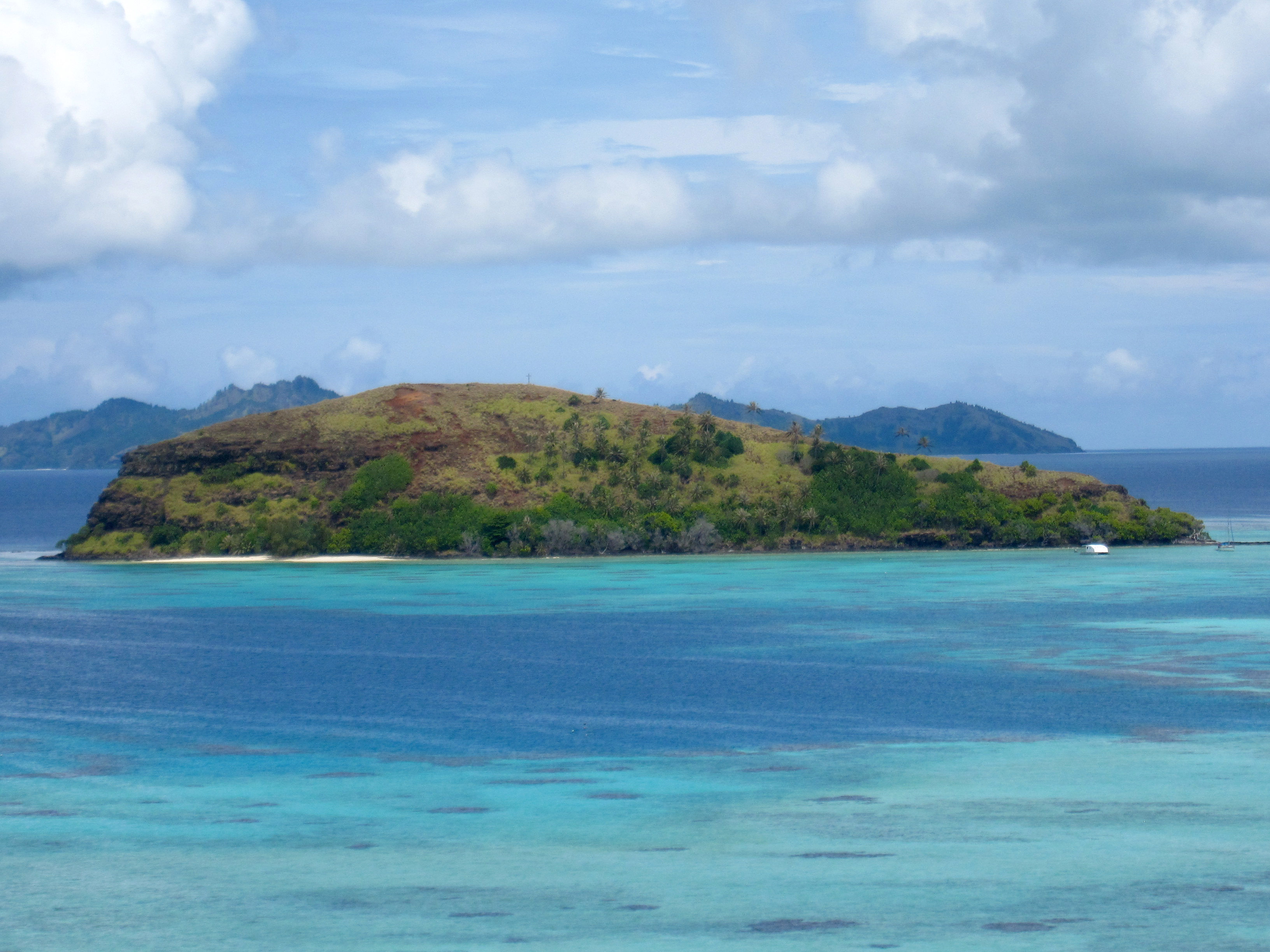 View on Mekiro from Akamaru island, on January 2 2014.